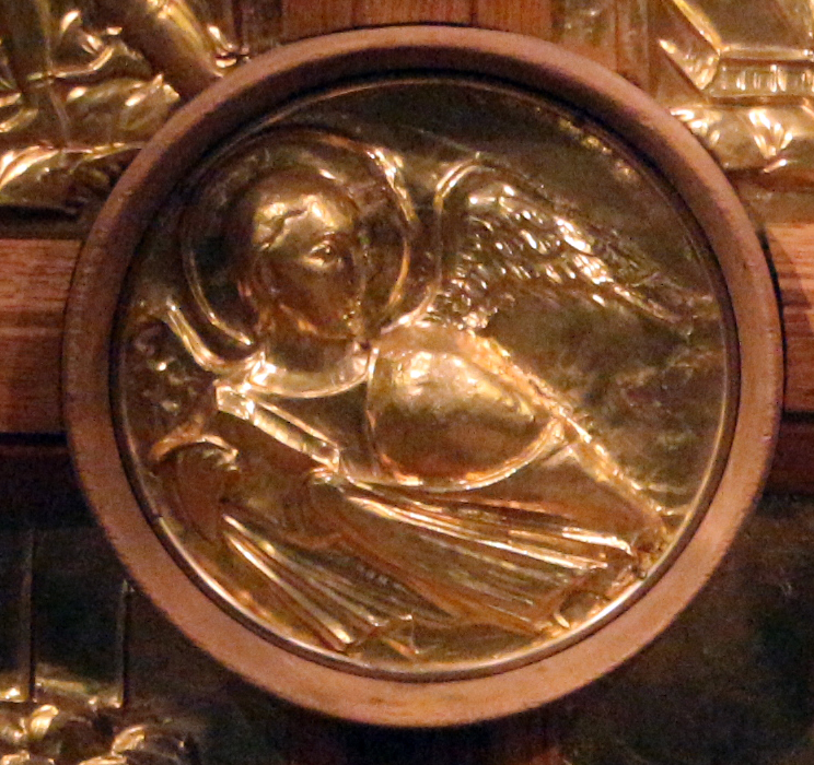 Pala d’oro (Aachen)